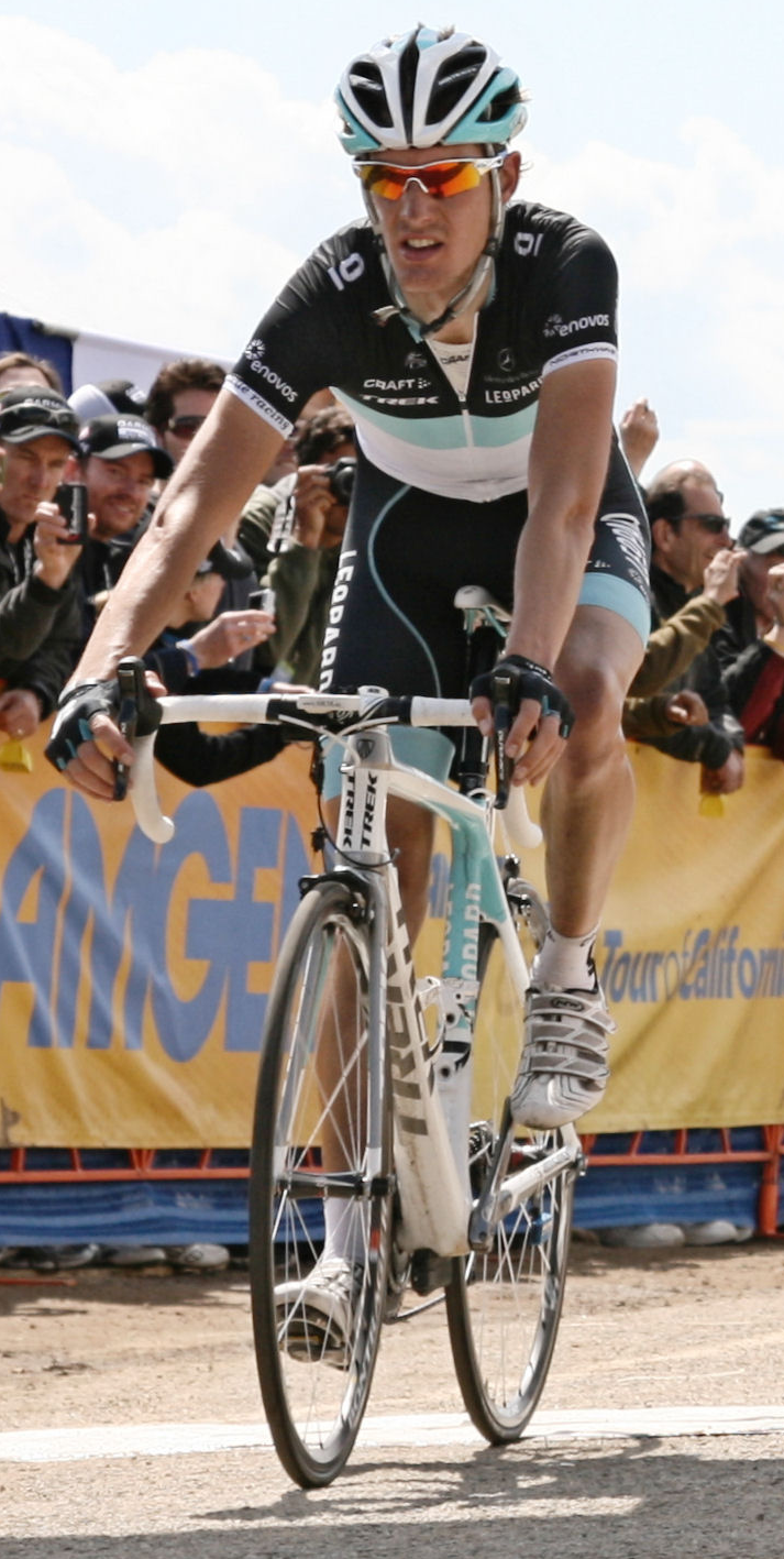 Andy Schleck during a stage of the 2011 Tour de California